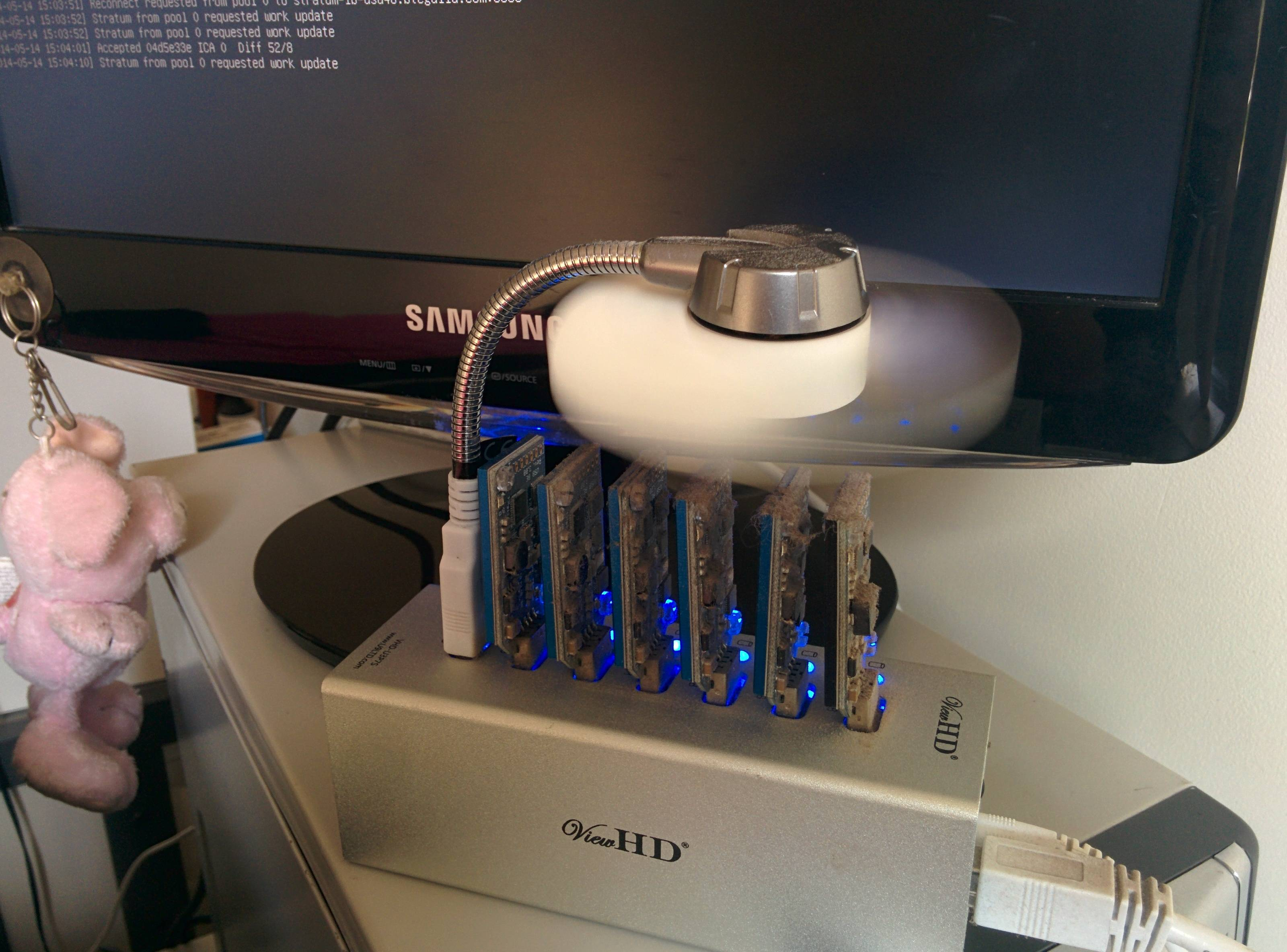 Bitcoin mining with USB Erupter 333 MH/s each